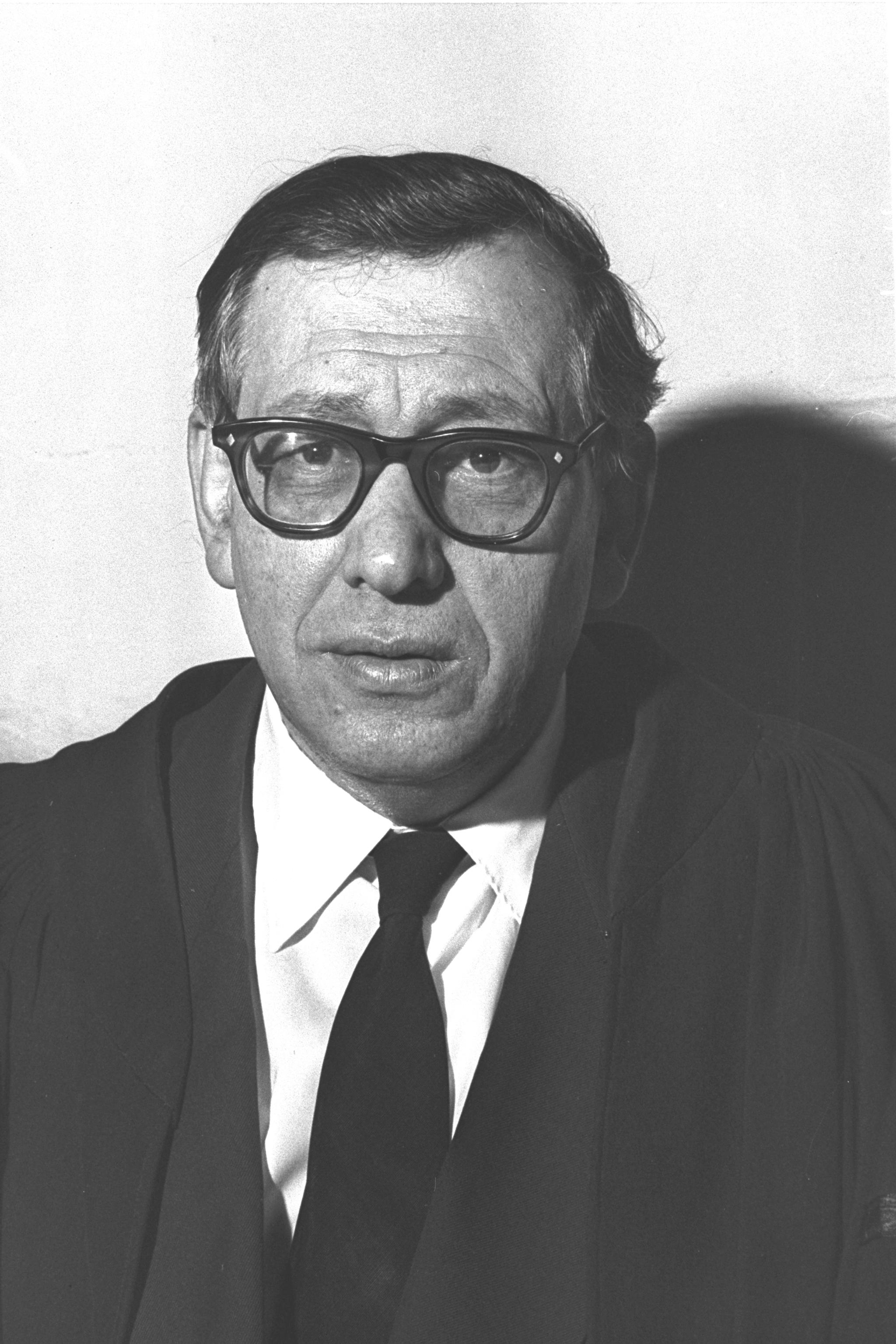 Shimon Agranat, Israel Supreme Court justice